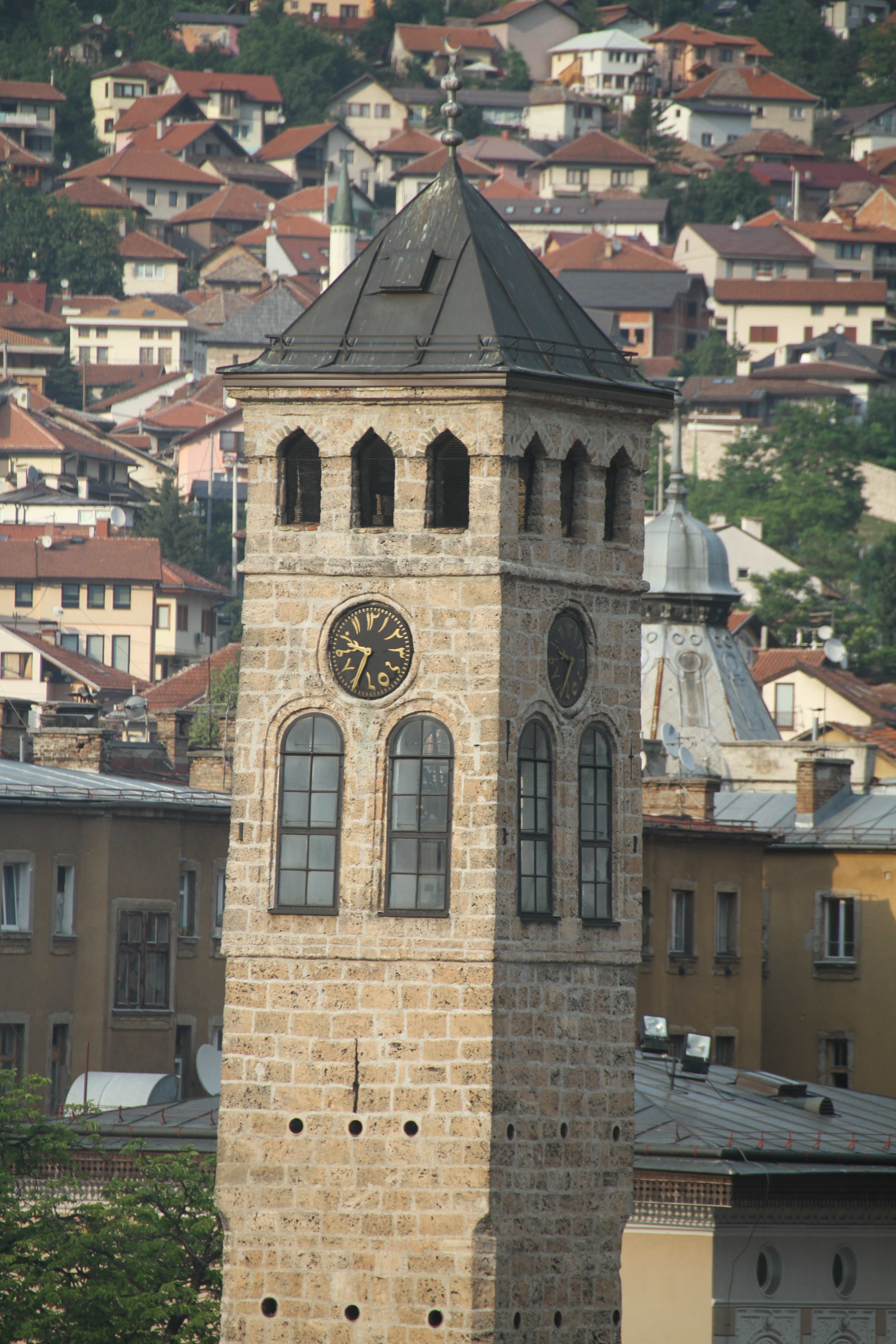 Belfry of Sarajevo